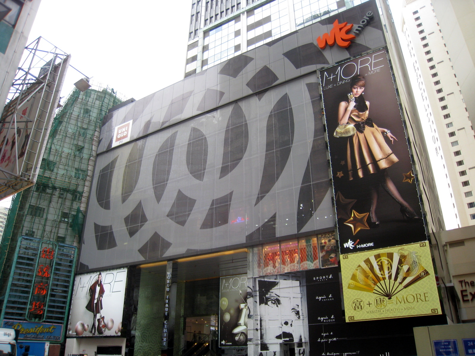 wtc more Enterance 世貿中心謝斐道的入口